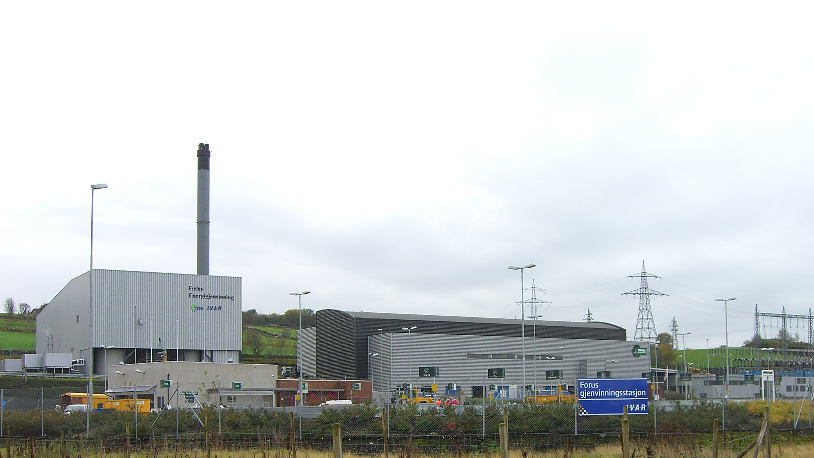 IVAR recycling plant in Sandnes, Norway